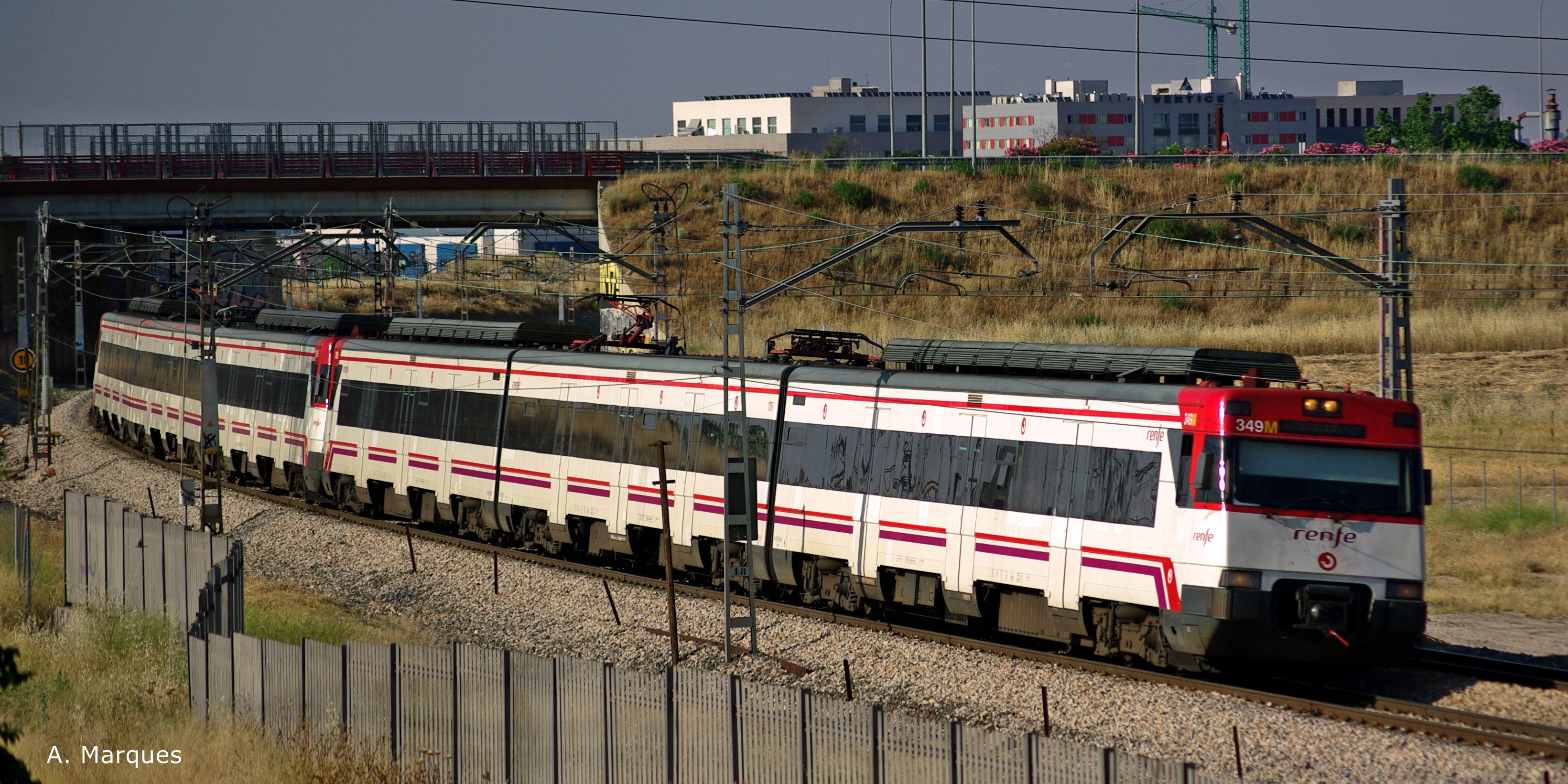 Cercanías Madrid train on line C3 with RENFE class 447, close to El Casar (Getafe)